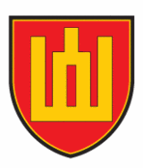 Insignia of the Lithuanian Armed Forces